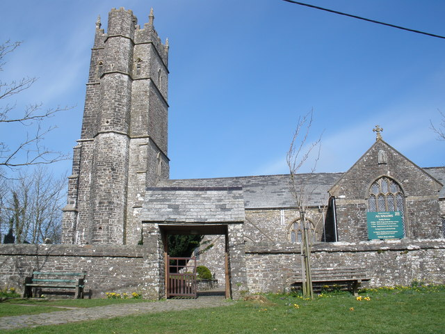 All Hallows' parish church, Woolfardisworthy, Devon, seen from the south